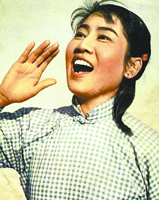 Zhang Ruifang played the title role in the 1962 film Li Shuangshuan